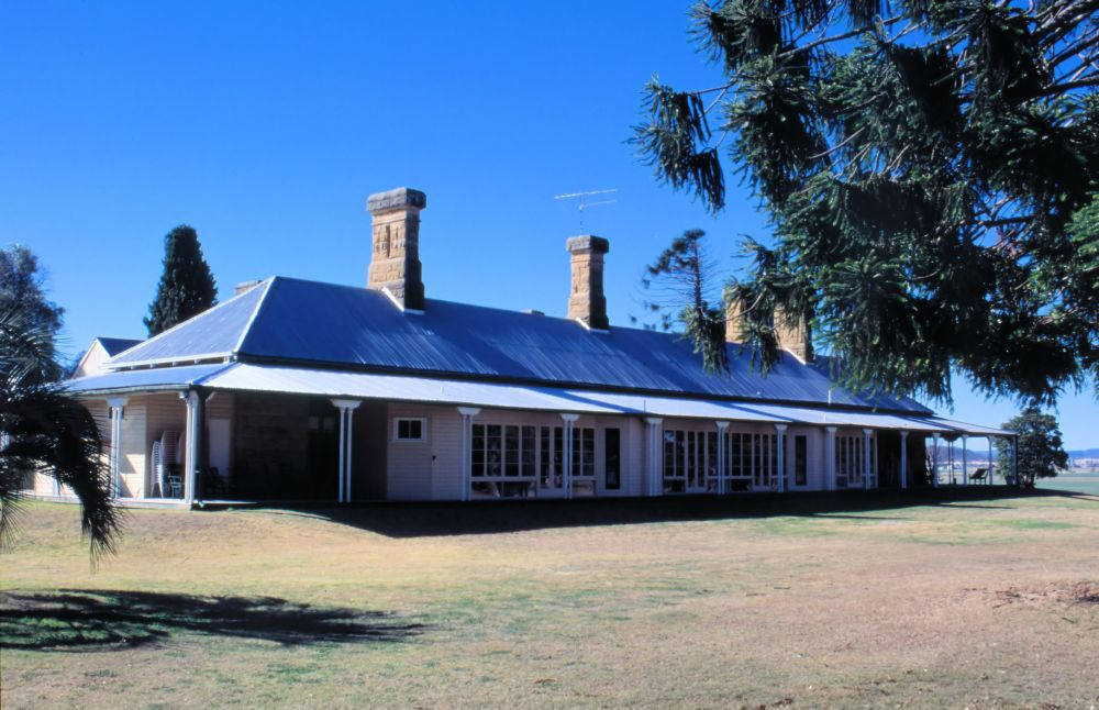 Talgai Homestead from south (1995)